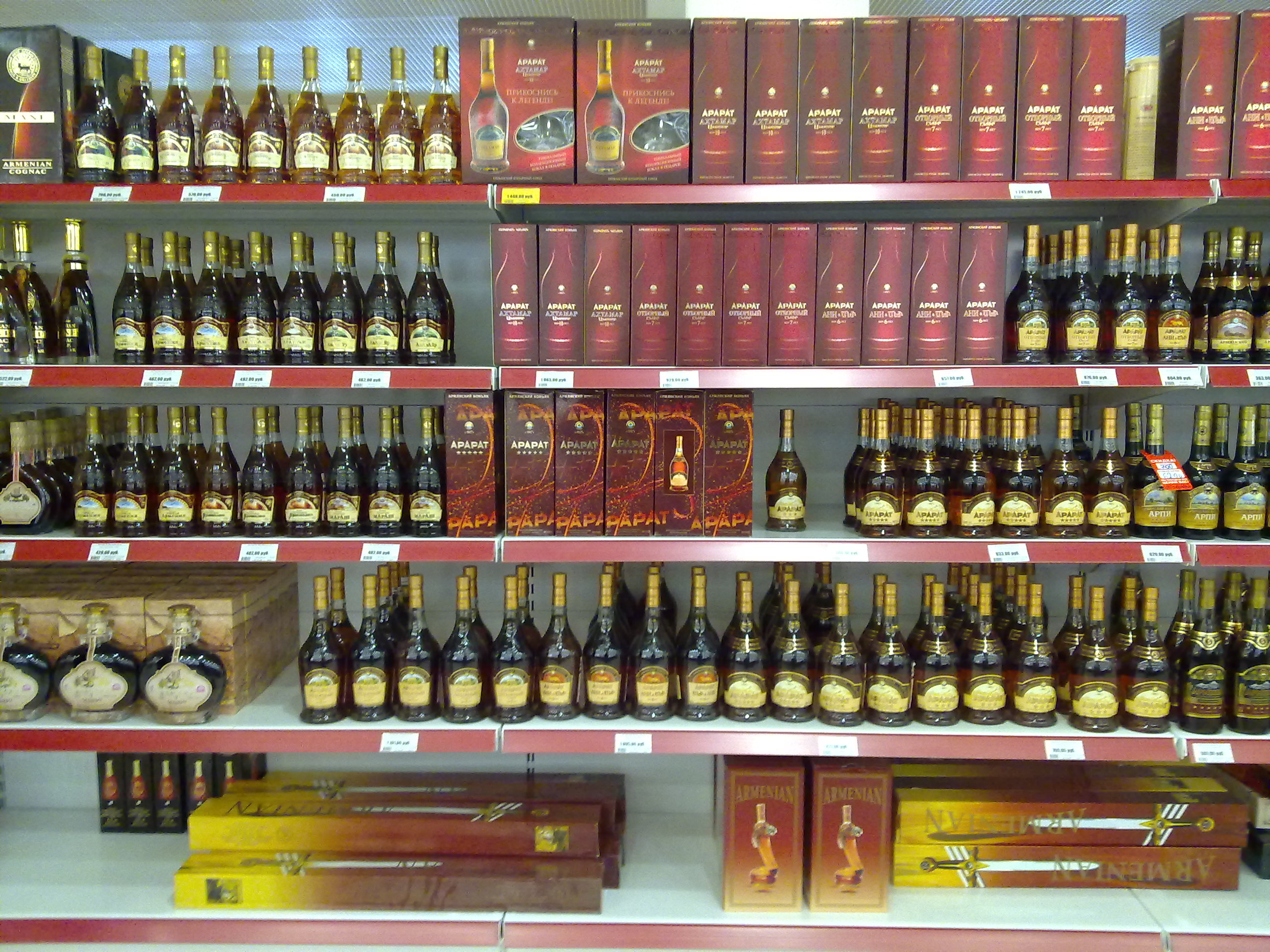 Armenian cognacs in the "Rio" Shopping mall, Moscow